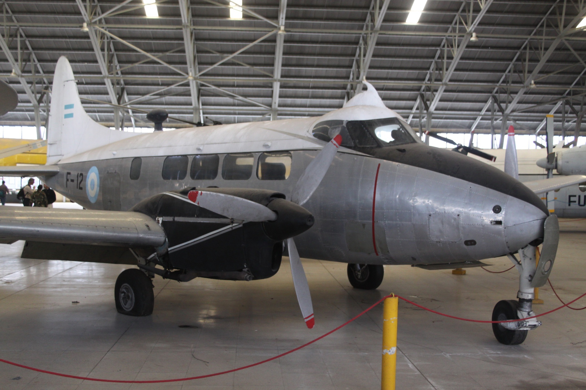 At Moron Museo Nactional De Aeronautica